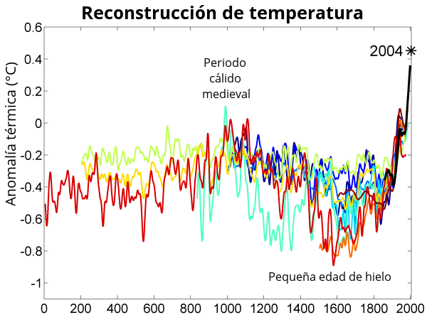 comparison of 10 different published reconstructions of mean temperature changes during the last 2000 years